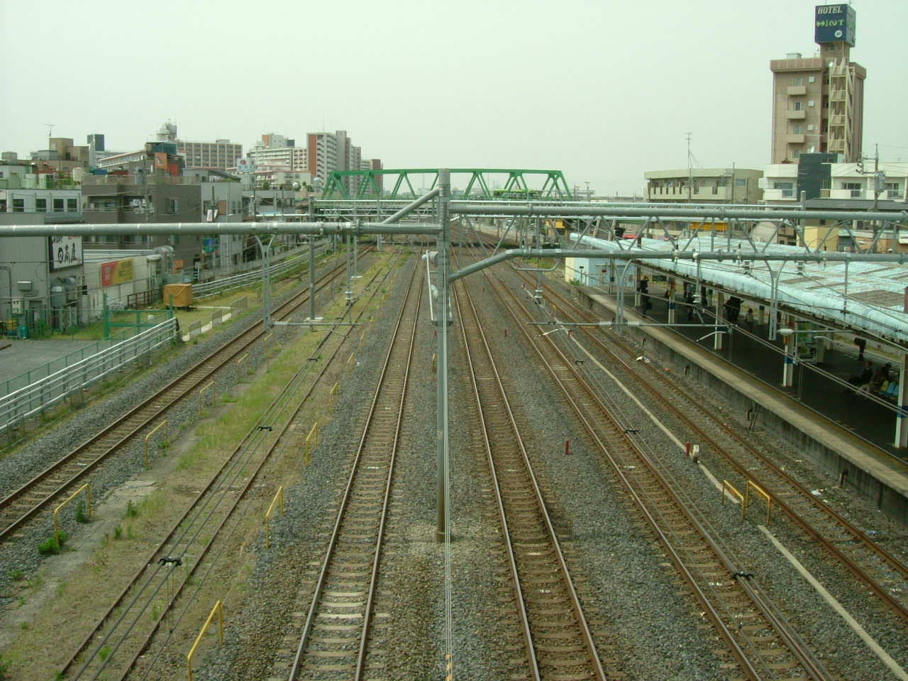 Tōhoku Main Line(Warabi Station) 東北本線(蕨駅)